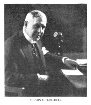 photo of Milton Florsheim